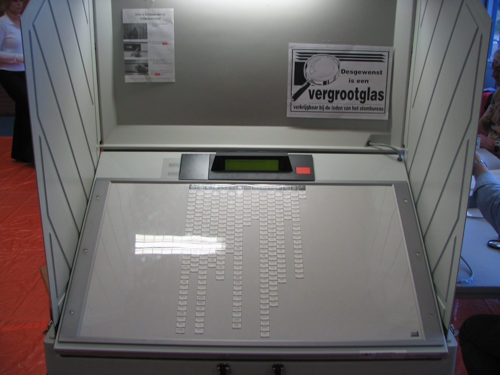 DRE voting machine made by Nedap.